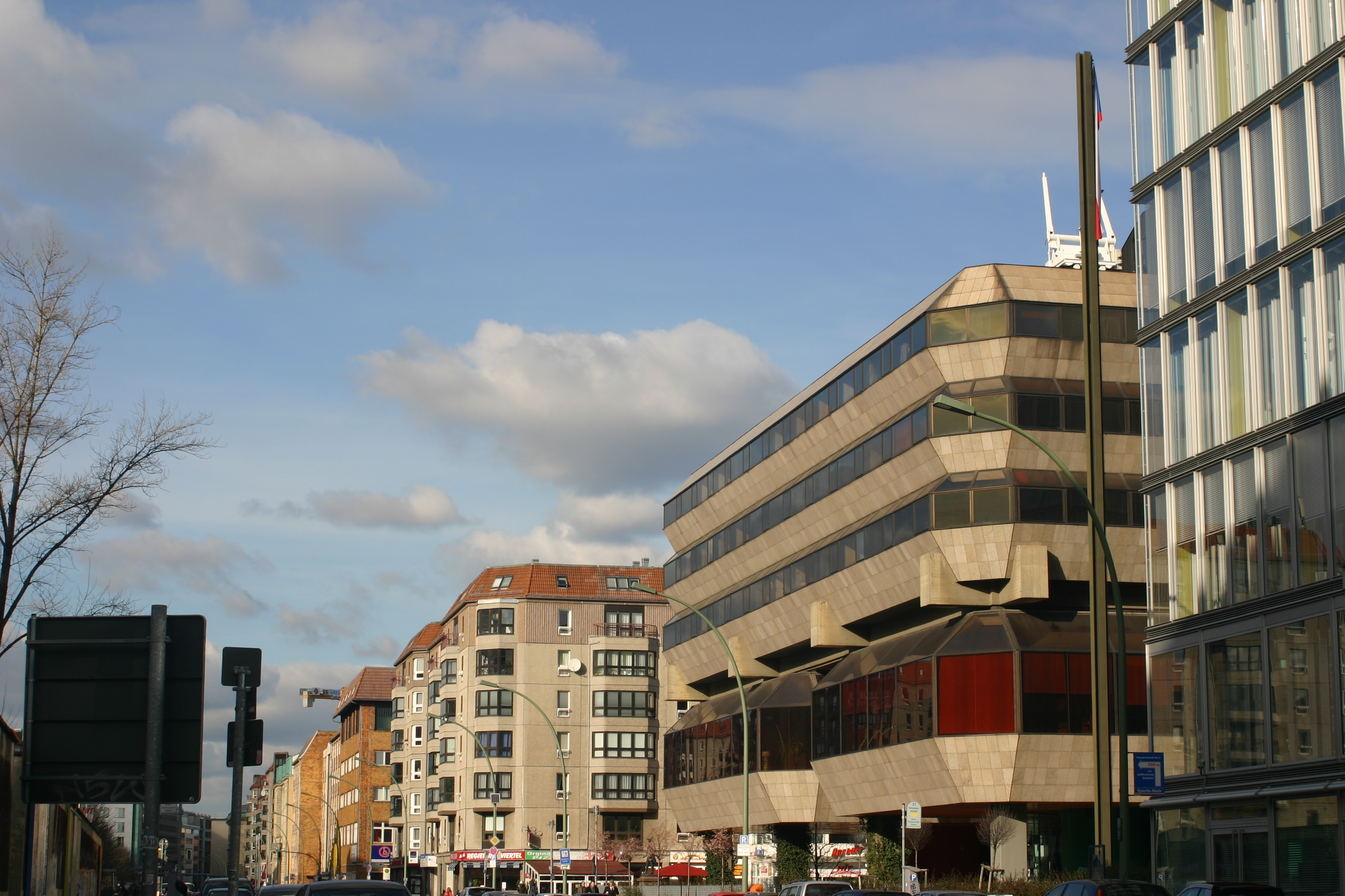 Czech Embassy in Berlin; East side of Wilhelmstraße facing North